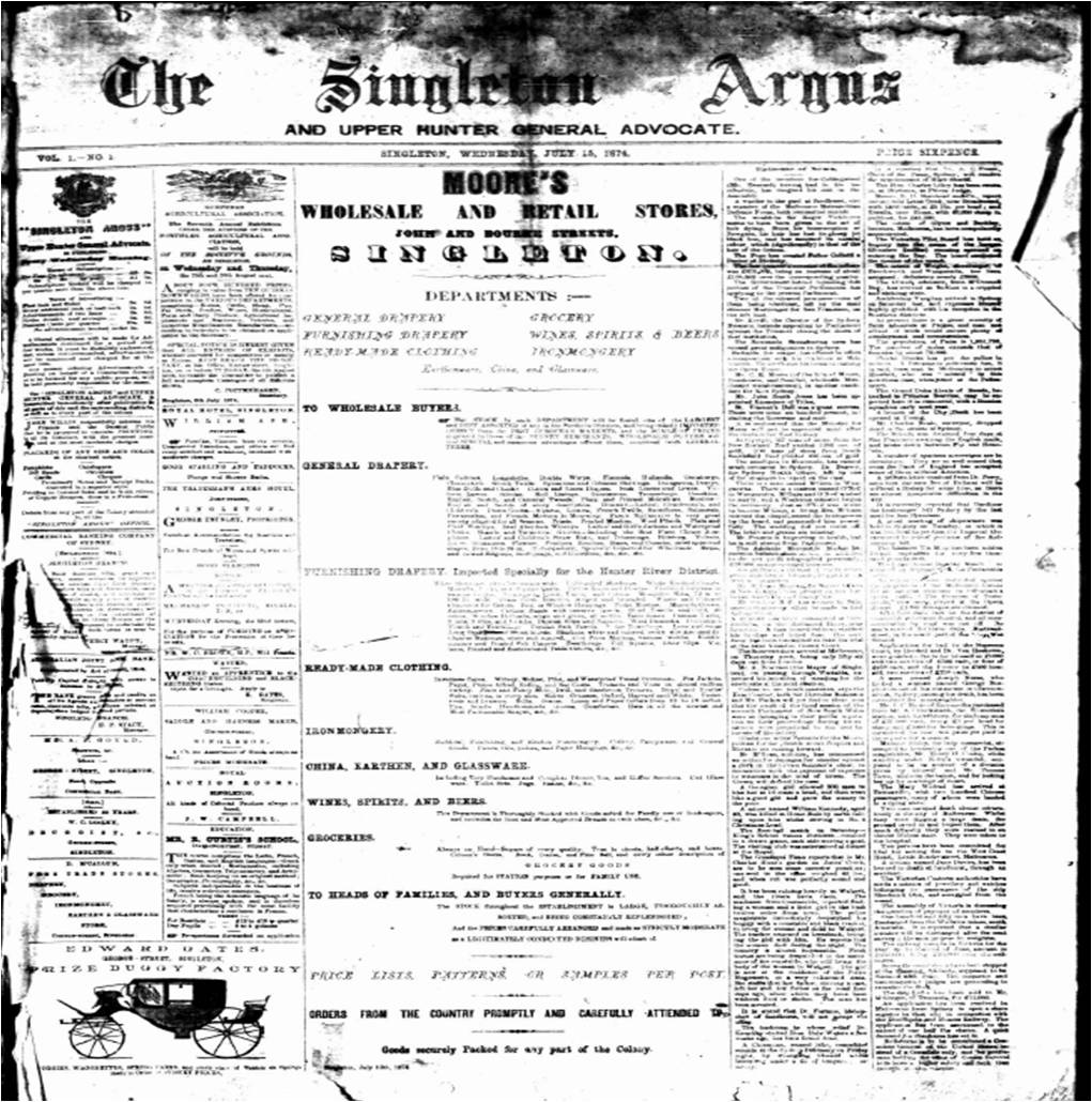 Coverpage of a historic newspaper from New South Wales, Australia.